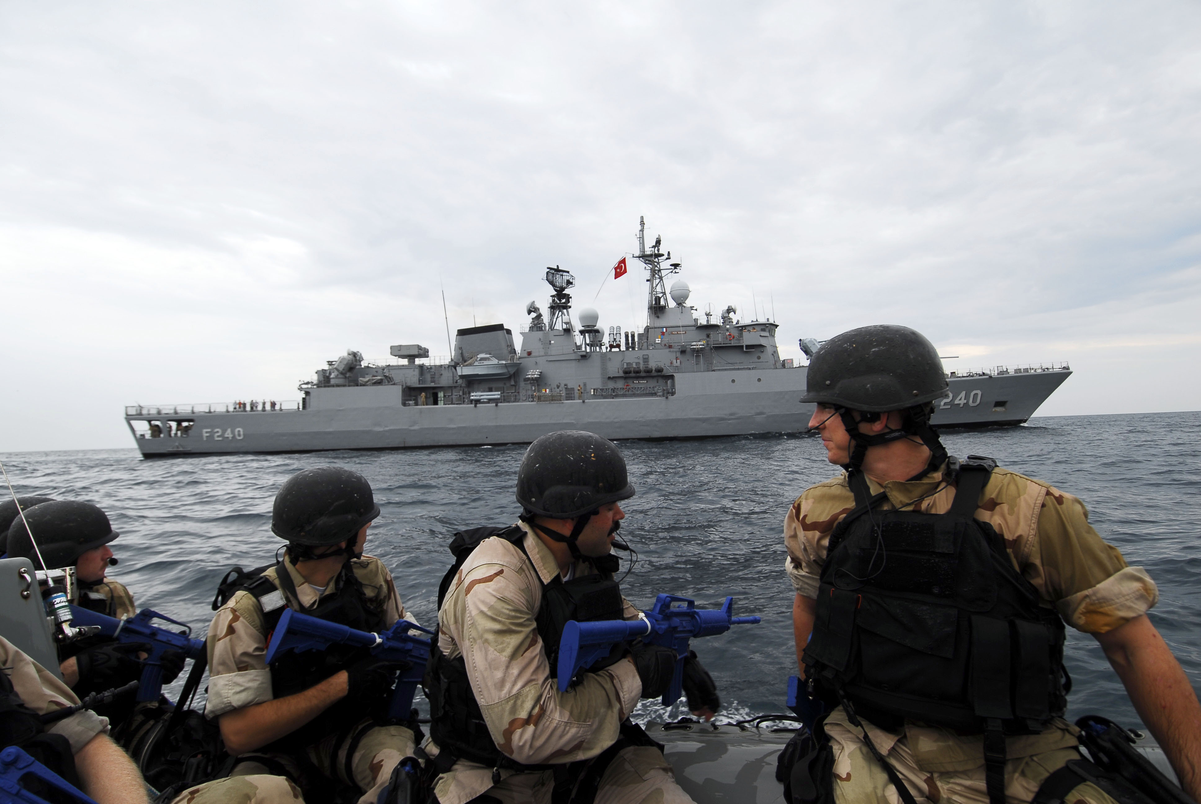 BLACK SEA (July 19, 2010) The visit, board, search and seizure team assigned to the guided-missile frigate USS Taylor (FFG 50) prepares to board the Turkish Navy frigate TCG Yavuz (F 240) during exercise Sea Breeze 2010. Sea Breeze is an annual multinational exercise designed to strengthen maritime partnerships in the Black Sea region in the spirit of partnership for peace. (U.S. Navy photo by Mass Communication Specialist 1st Class Edward Kessler/Released)